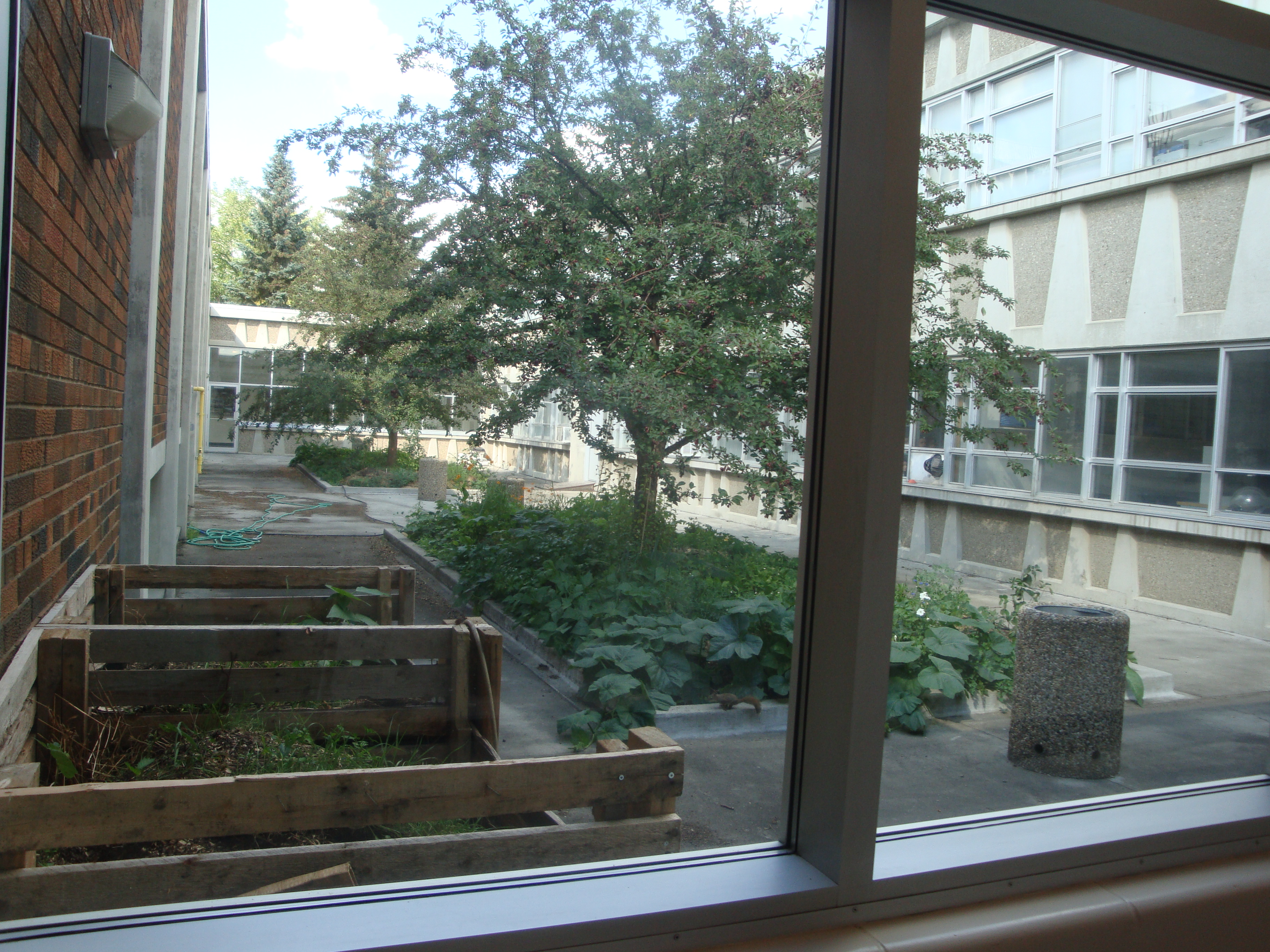 A young Jasper Place High School food forest after its first summer of growth. Containing more than seventy perennial herbs and berries, the food forest is located in the school's central courtyard. The project was completed by student volunteers from the Jasper Place Permaculture Club.